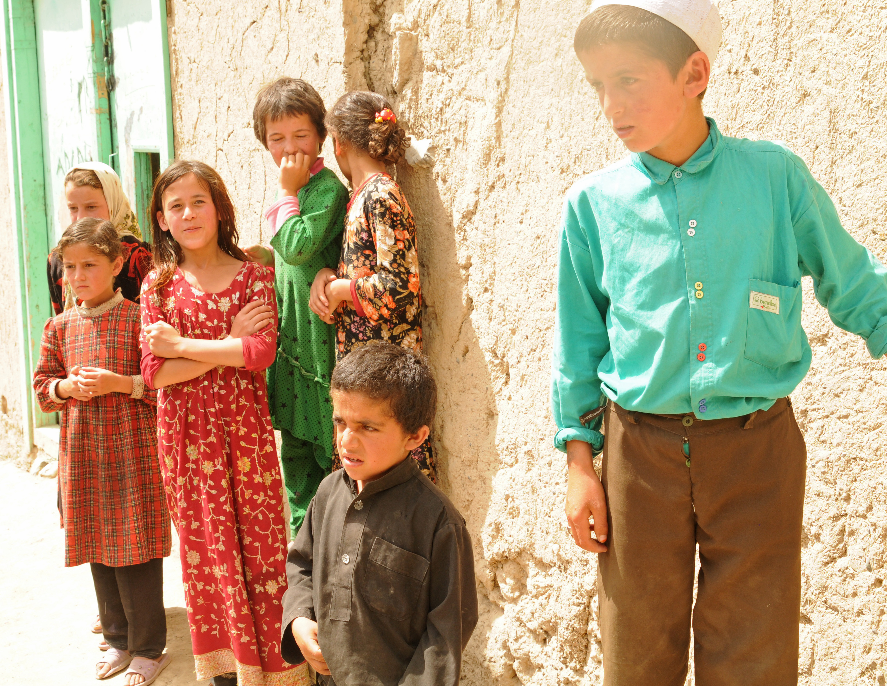 Afghan children gather near Khwahan, Badakhshan Province, Afghanistan, June 3, 2012. (Sgt. Kimberly Lamb) (Released)